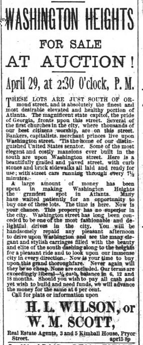 Ad for Washington Heights subdivison, Atlanta 1890